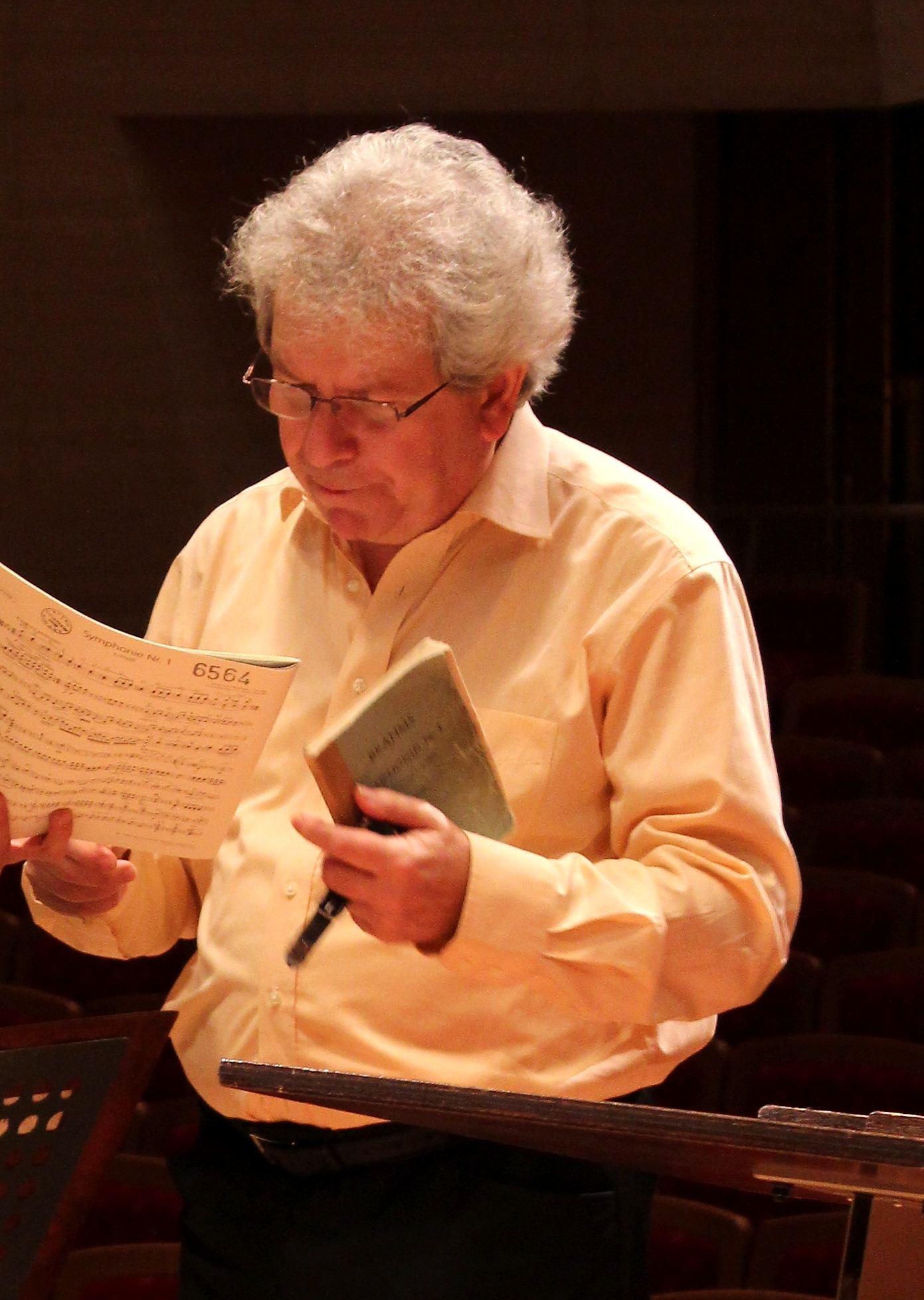 Conductor Jiri Belohlavek, Suntory Hall, Tokyo, 2013.